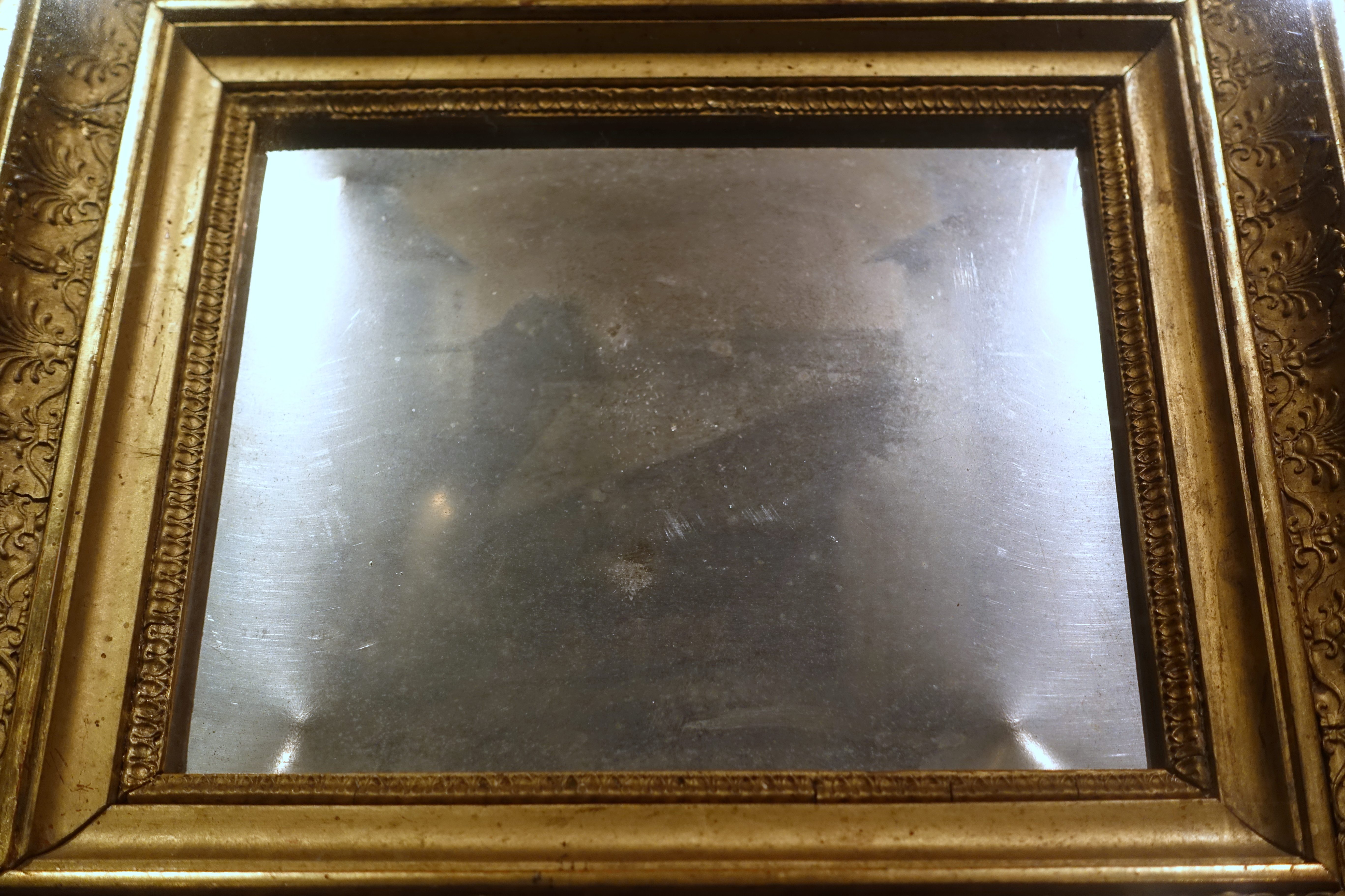 Exhibit in the Harry Ransom Center - University of Texas at Austin, Austin, Texas, USA. This work is old enough so that it is in the public domain.